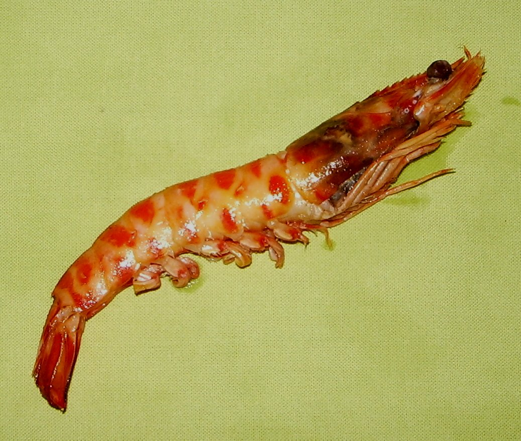 Sanlúcar prawns